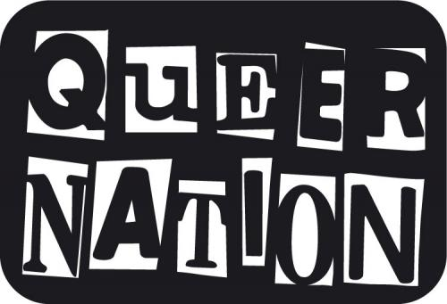 Queer Nation logo by Alan MacDonald & Patrick Lilley from 1992.